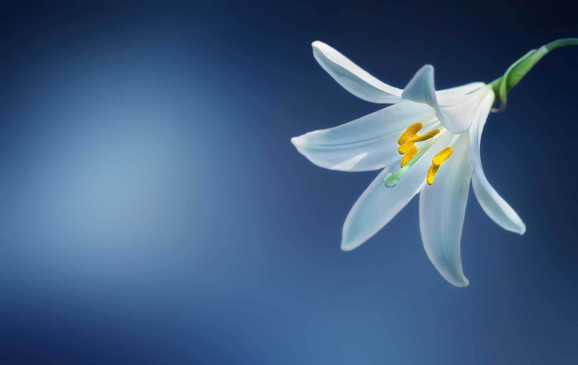 Madonna Lily is a majestic lily with long white trumpets